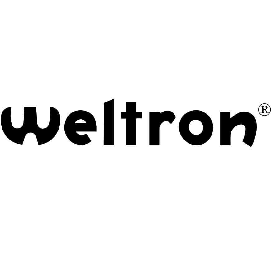 Over the years Weltrons logo like all other things has grown and been updated this is the weltron logo as it stands today